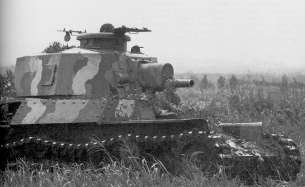 Side view - Experimental Type 1 gun tank Ho-I